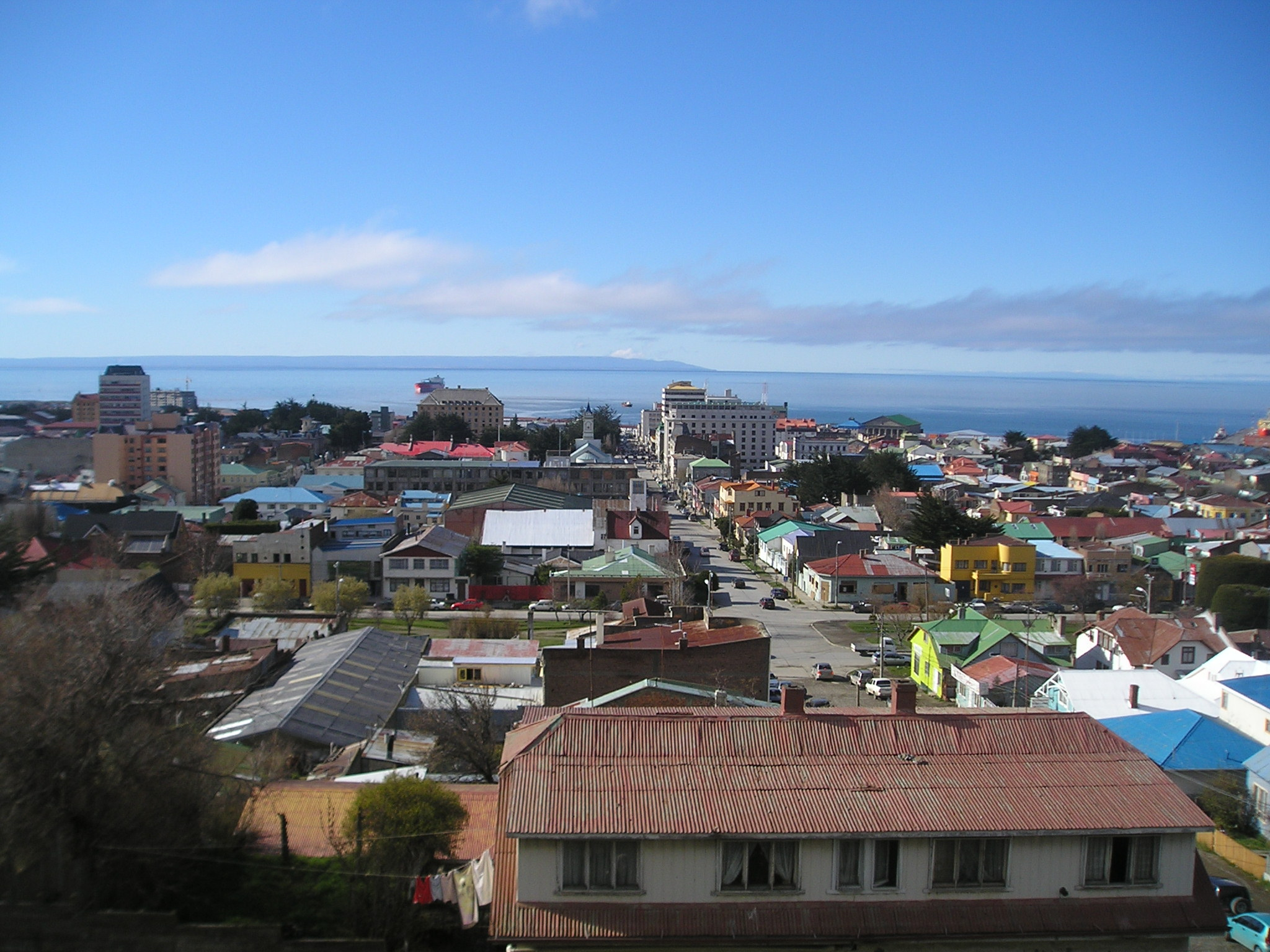 Punta Arenas, Chile - a view of the city's central part from Cerro La Cruz